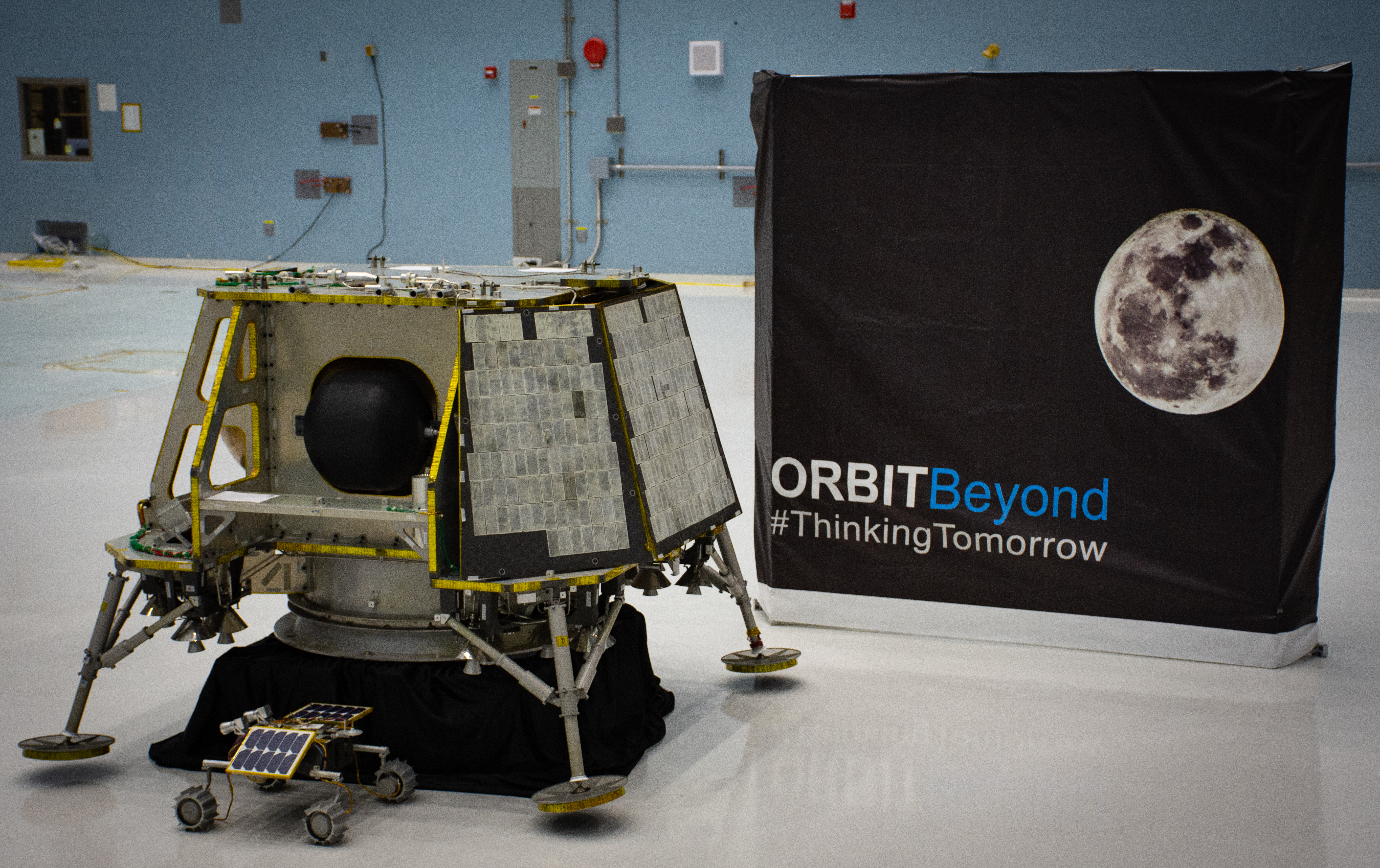 NASA has selected three commercial Moon landing service providers that will deliver science and technology payloads under Commercial Lunar Payload Services (CLPS) as part of the Artemis program. Each commercial lander will carry NASA-provided payloads that will conduct science investigations and demonstrate advanced technologies on the lunar surface, paving the way for NASA astronauts to land on the lunar surface by 2024. The selections are: • Astrobotic of Pittsburgh has been awarded $79.5 million and has proposed to fly as many as 14 payloads to Lacus Mortis, a large crater on the near side of the Moon, by July 2021. • Intuitive Machines of Houston has been awarded $77 million. The company has proposed to fly as many as five payloads to Oceanus Procellarum, a scientifically intriguing dark spot on the Moon, by July 2021. • Orbit Beyond of Edison, New Jersey, has been awarded $97 million and has proposed to fly as many as four payloads to Mare Imbrium, a lava plain in one of the Moon’s craters, by September 2020. This commercial lander from Orbit Beyond of Edison, New Jersey, will carry NASA-provided science and technology payloads to the lunar surface, paving the way for NASA astronauts to land on the Moon by 2024. All three of the lander models were on display for the announcement of the companies selected to provide the first lunar landers for the Artemis program, on Friday, May 31, 2019, at NASA's Goddard Space Flight Center in Greenbelt, Md. Read more: Credit: NASA/Goddard/Rebecca Roth